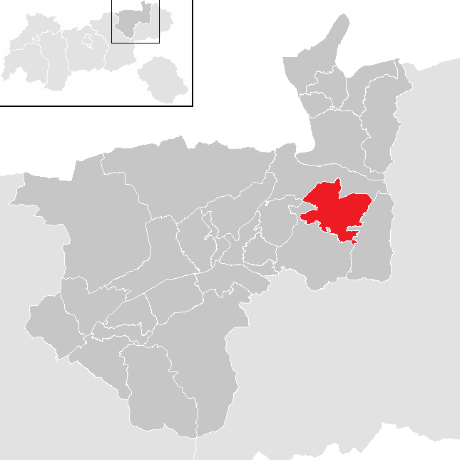 District Kufstein